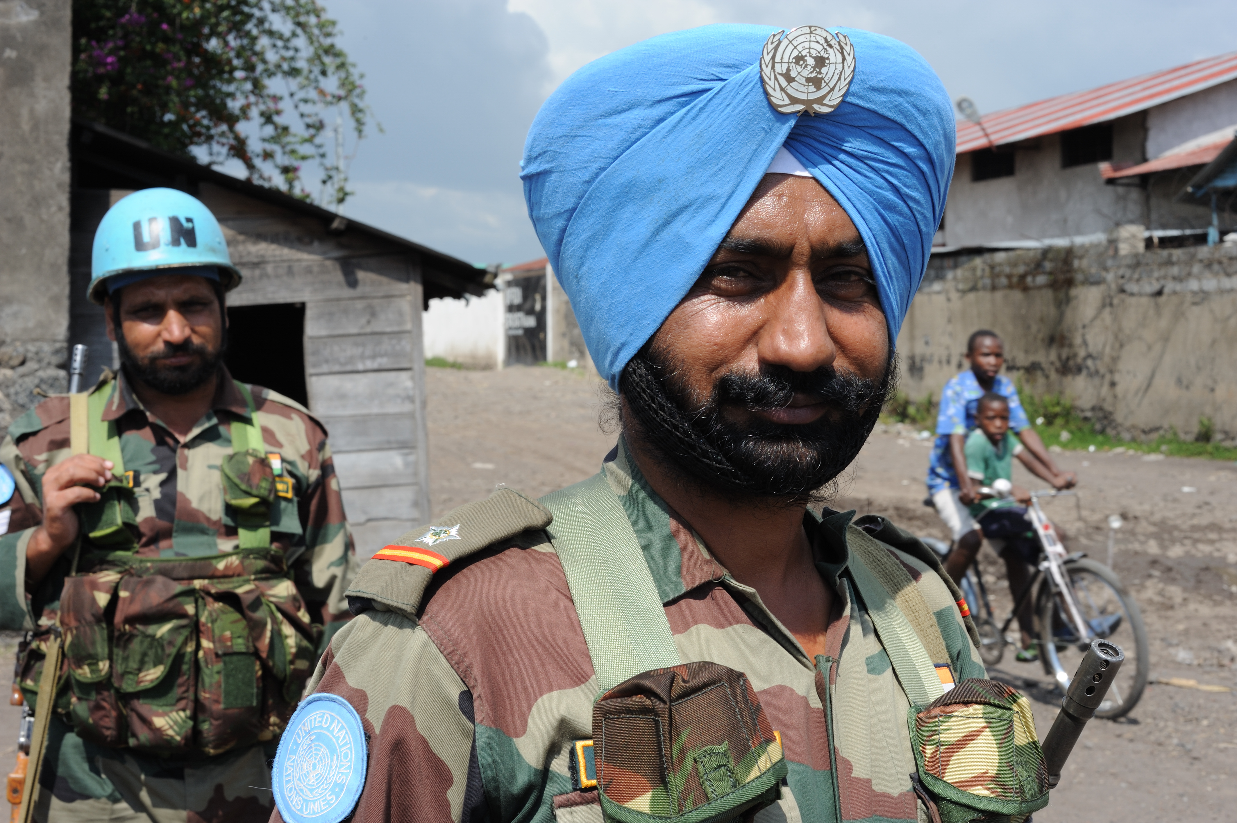 "Because of the looting and shooting in town all UN staff were regrouped into concentration points where we spent the night. The UN indian contingent came to protect the location. Tomorrow we get back to distributing aid." - author